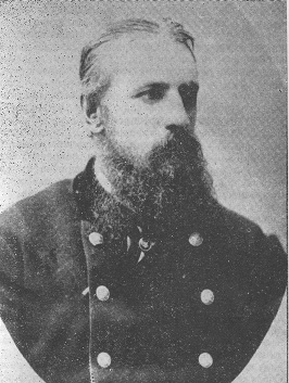 Mihail Hitrovo